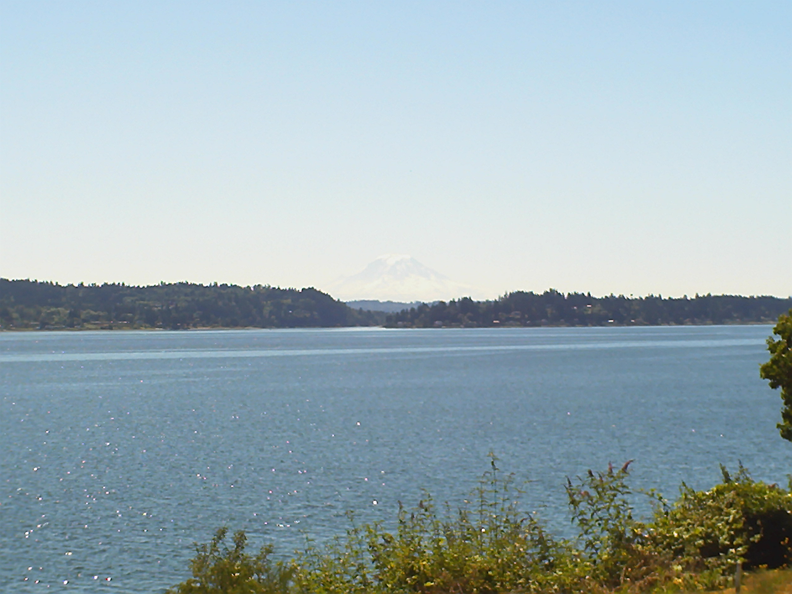 Image of Dyes Inlet taken from the Chico side. View facing Southeast with Mt. Rainier in background